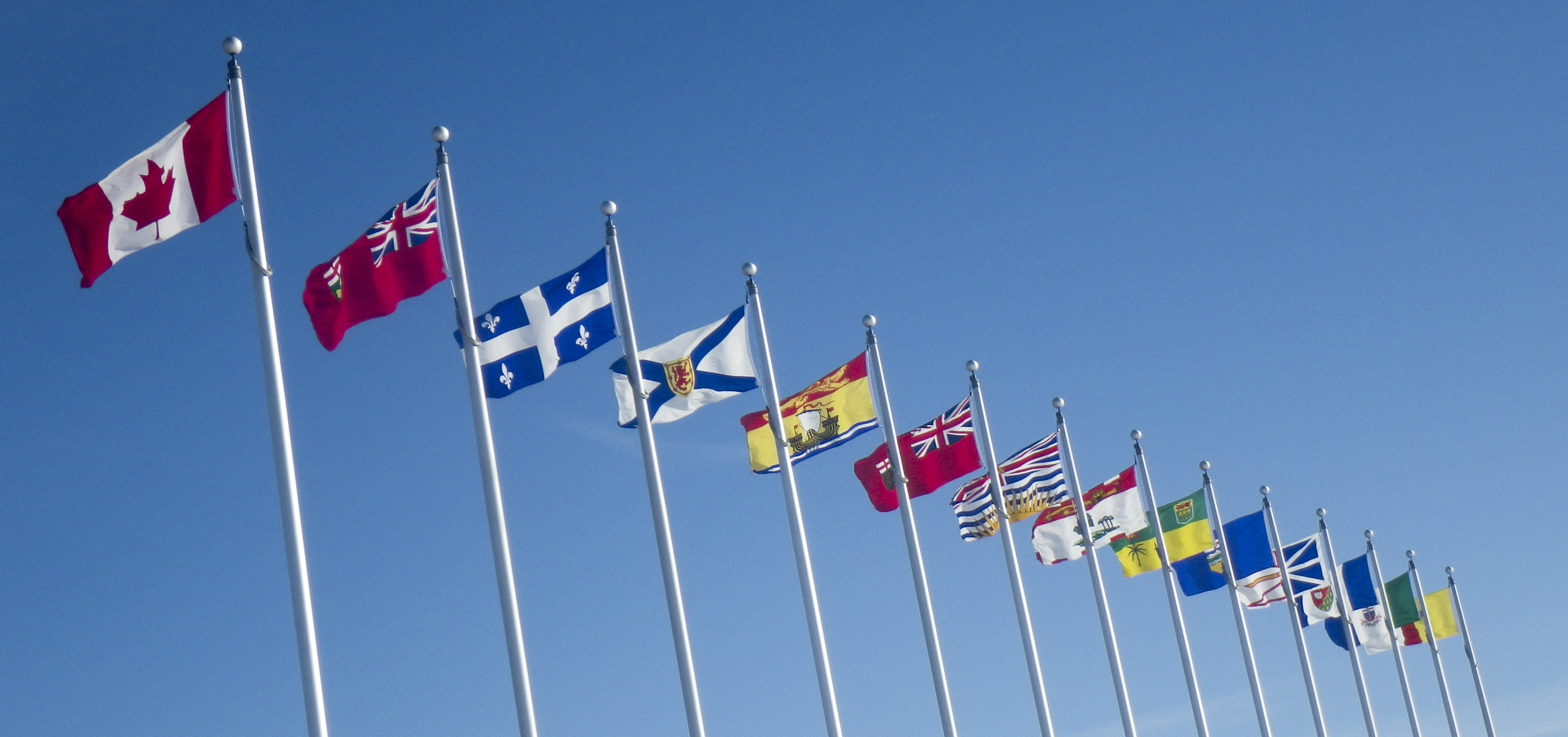 Outside the Canadian War Museum, the provincial and territory flags of all thirteen provinces and territories.